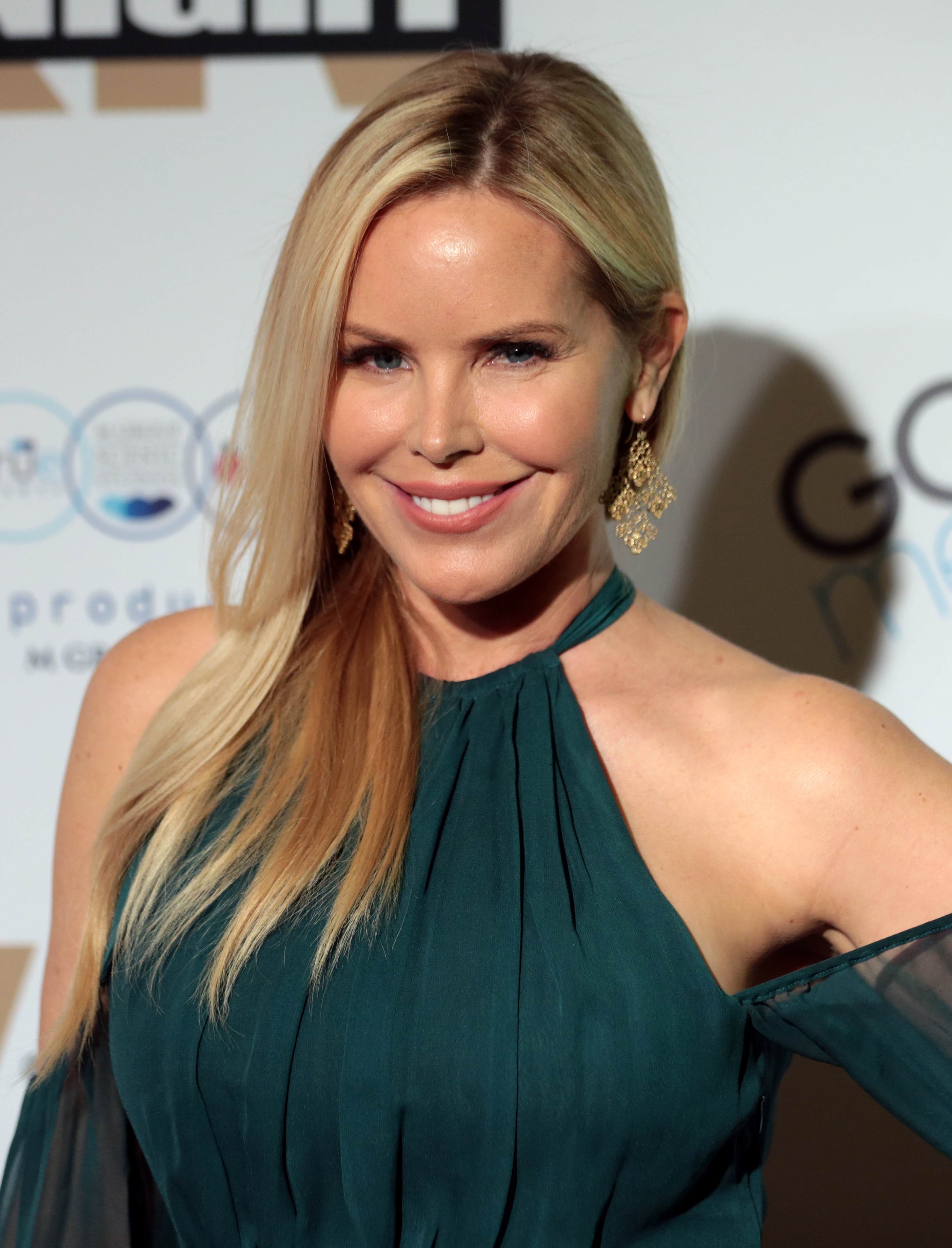 Gena Lee Nolin at Celebrity Fight Night XXIV in Phoenix, Arizona.